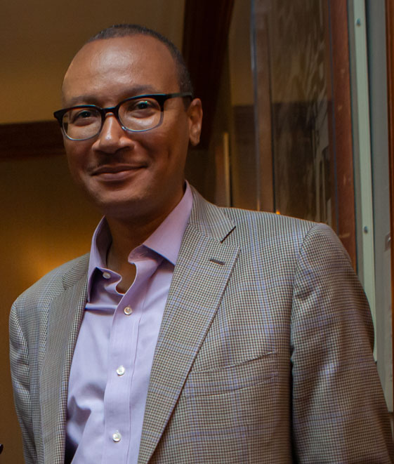 Greg Keating, Deva Woodly and Tommie Shelby at the Edmond J. Safra Center for Ethics.